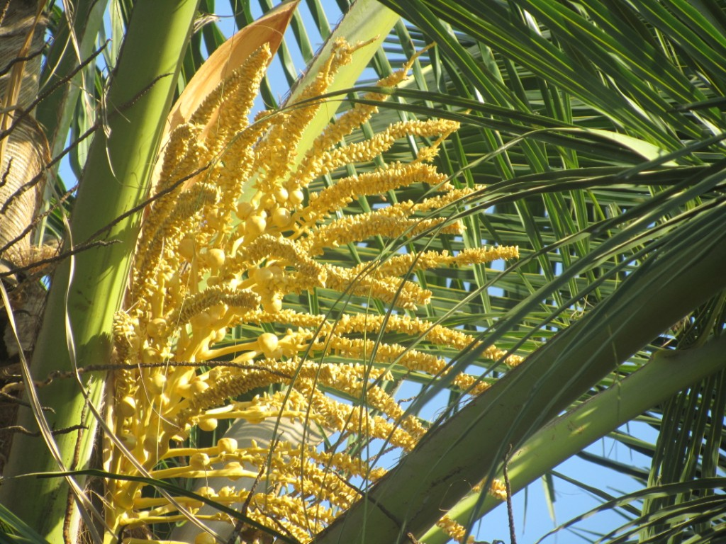 Flowers of Coconut